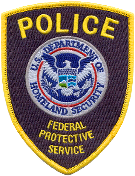 Patch of the United States Department of Homeland Security's Federal Protective Service.